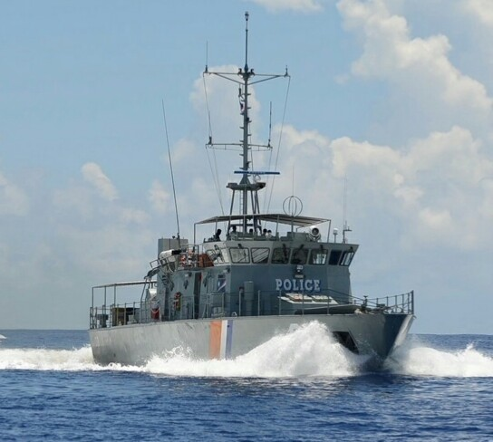 Republic of Marshall Islands Ship Lomor a Police Sea Patrol, on patrol.